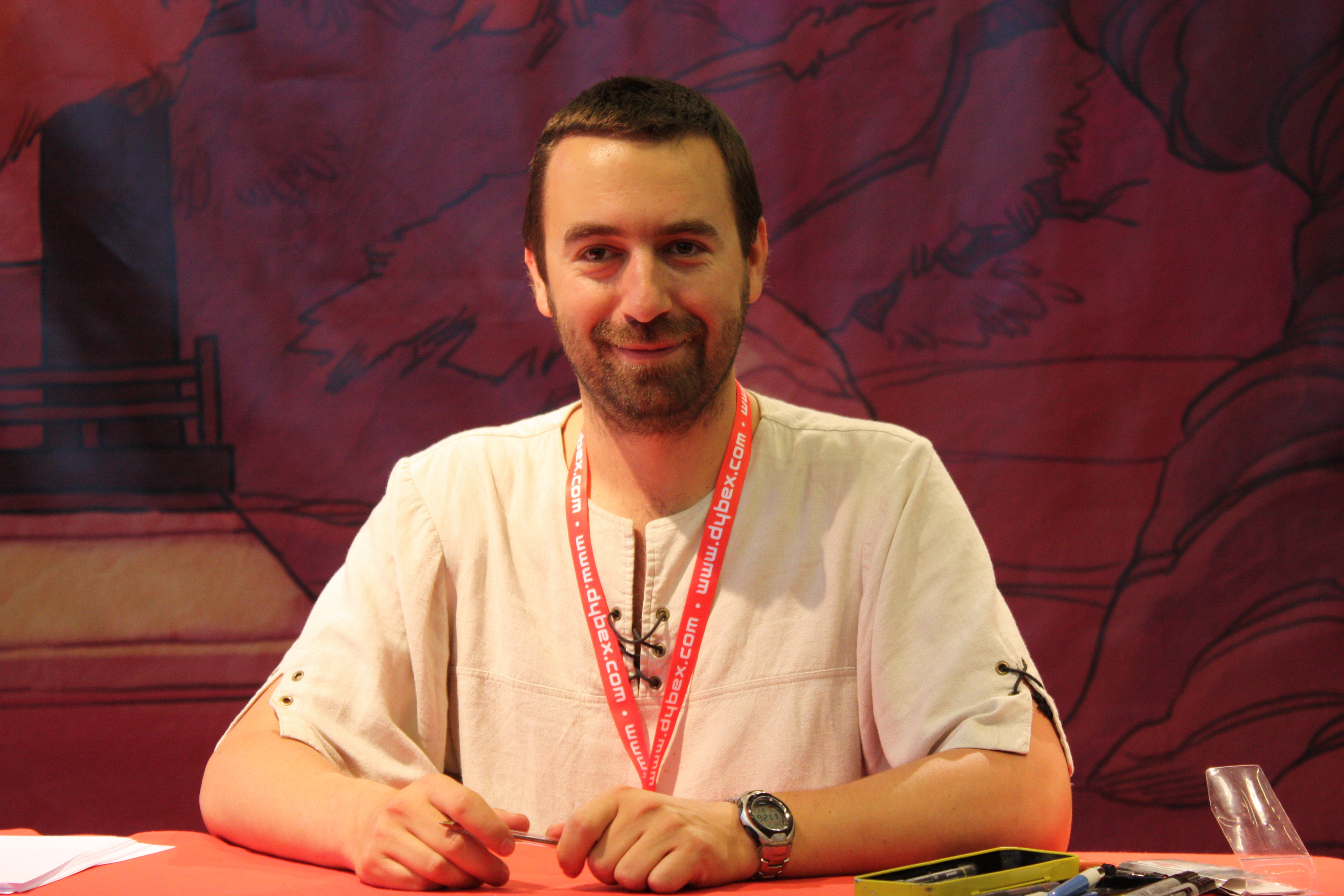 Autograph session with John Lang (Pen of Chaos) at Japan Expo 2008 (Paris, France).